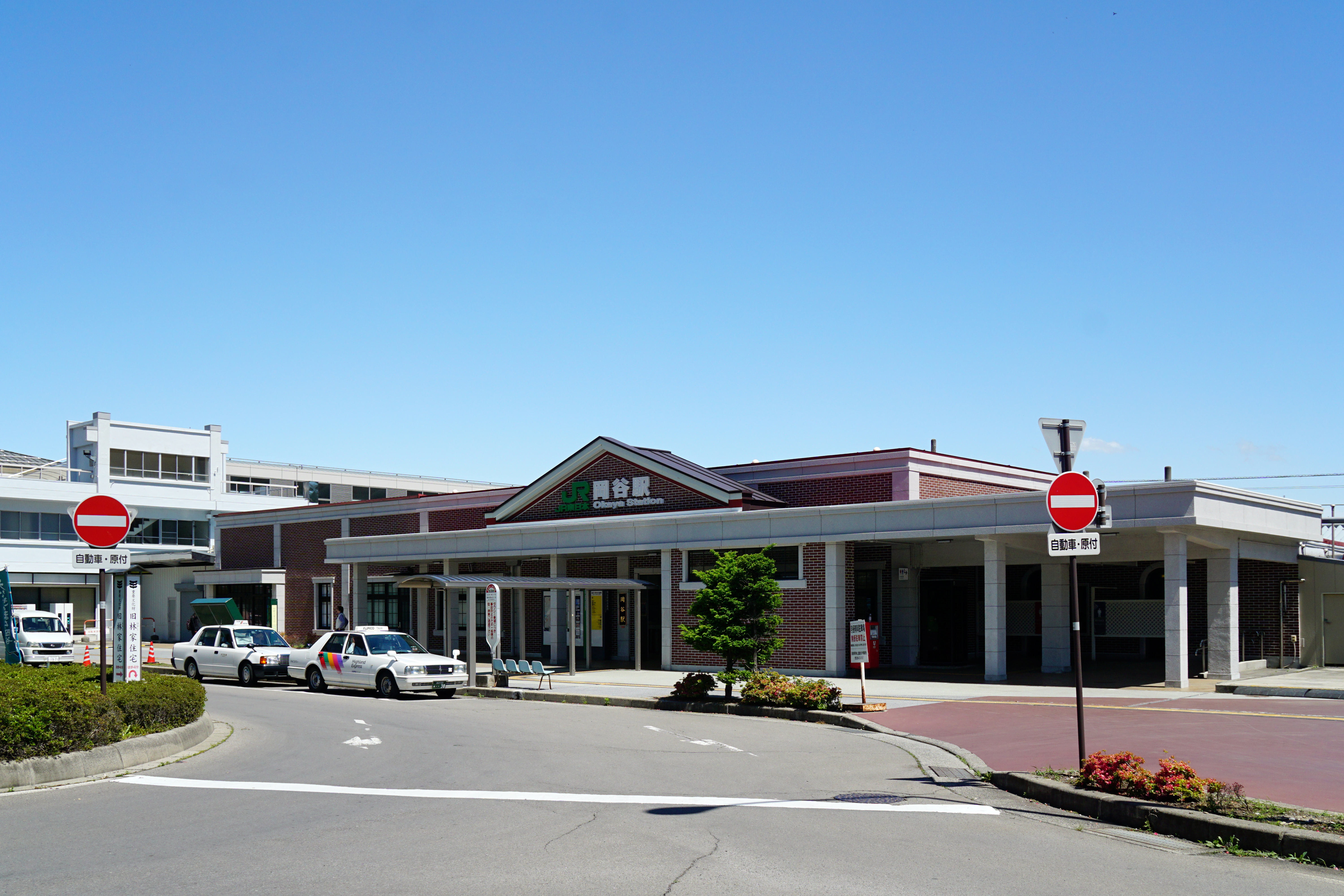 Okaya Station in Okaya, Nagano prefecture, Japan